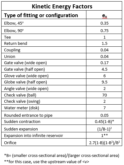 Kinetic energy factors for specific components of piping systems. Provided by John Berg, Chemical Engineering, University of Washington.